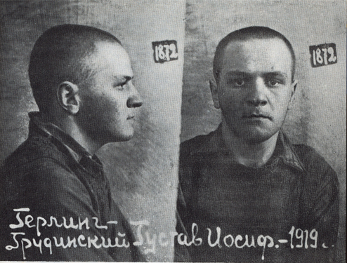 Gustaw Herling-Grudziński. Photo taken in Hrodna's jail in 1940